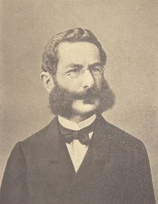 Heliogravure portrait of Theodor Scherer-Boccard (1816–1885) was a Swiss journalist.